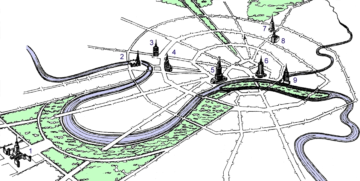 Plan of Stalinist Towers in Moscow